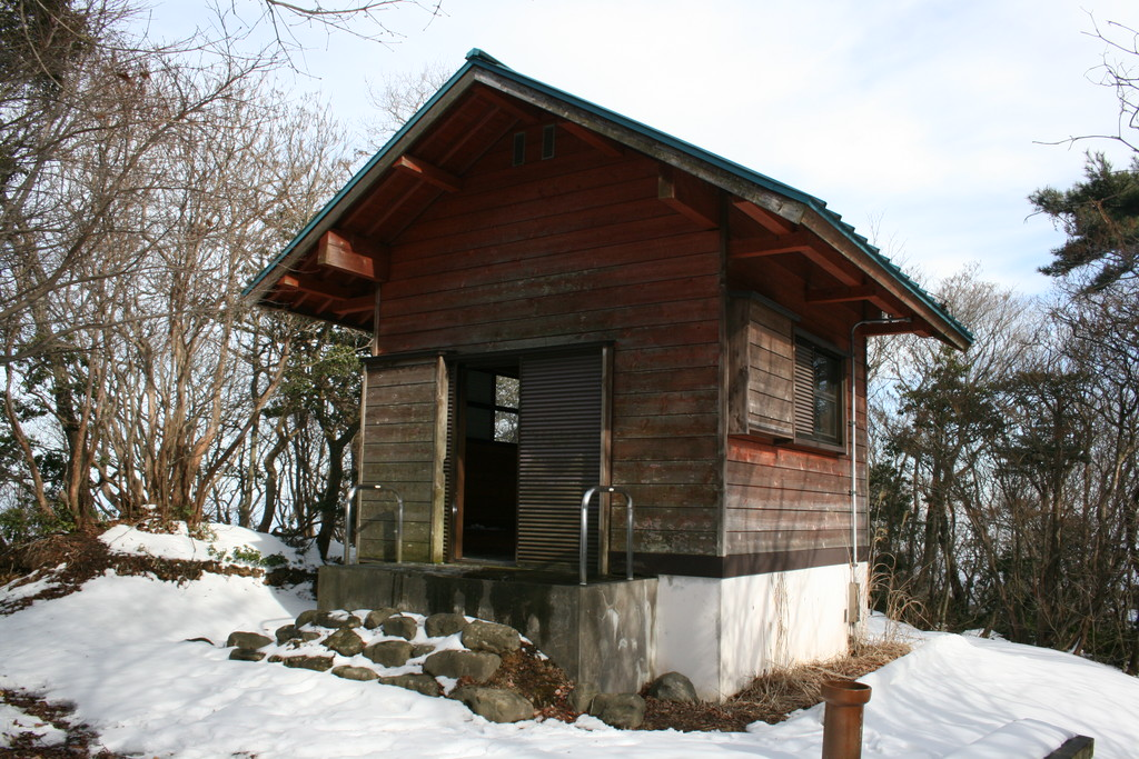 Tsuya-hinangoya, a mountain hut (bivouac hut) in Mount Yōrō, Gifu prefecture, Japan.